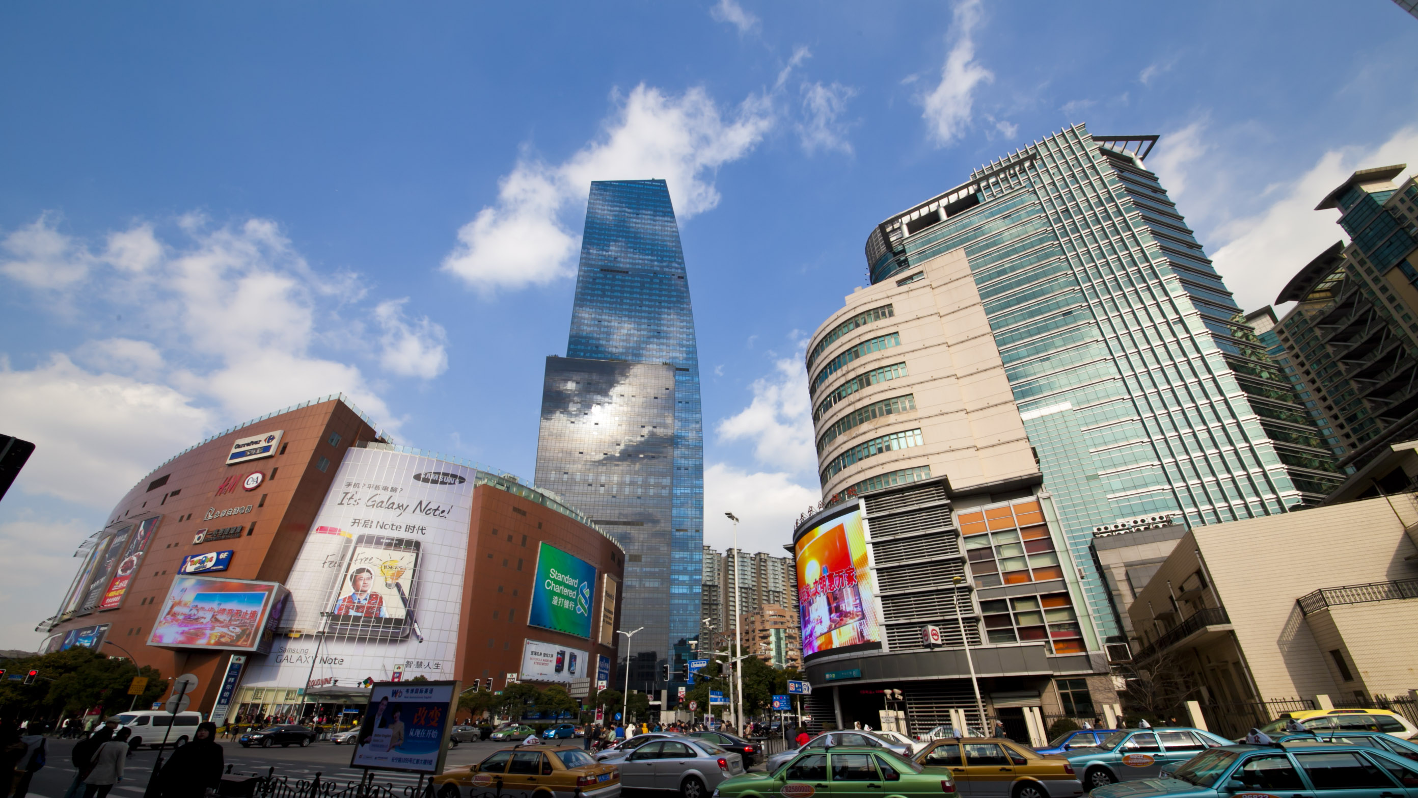 Zhongshan Park